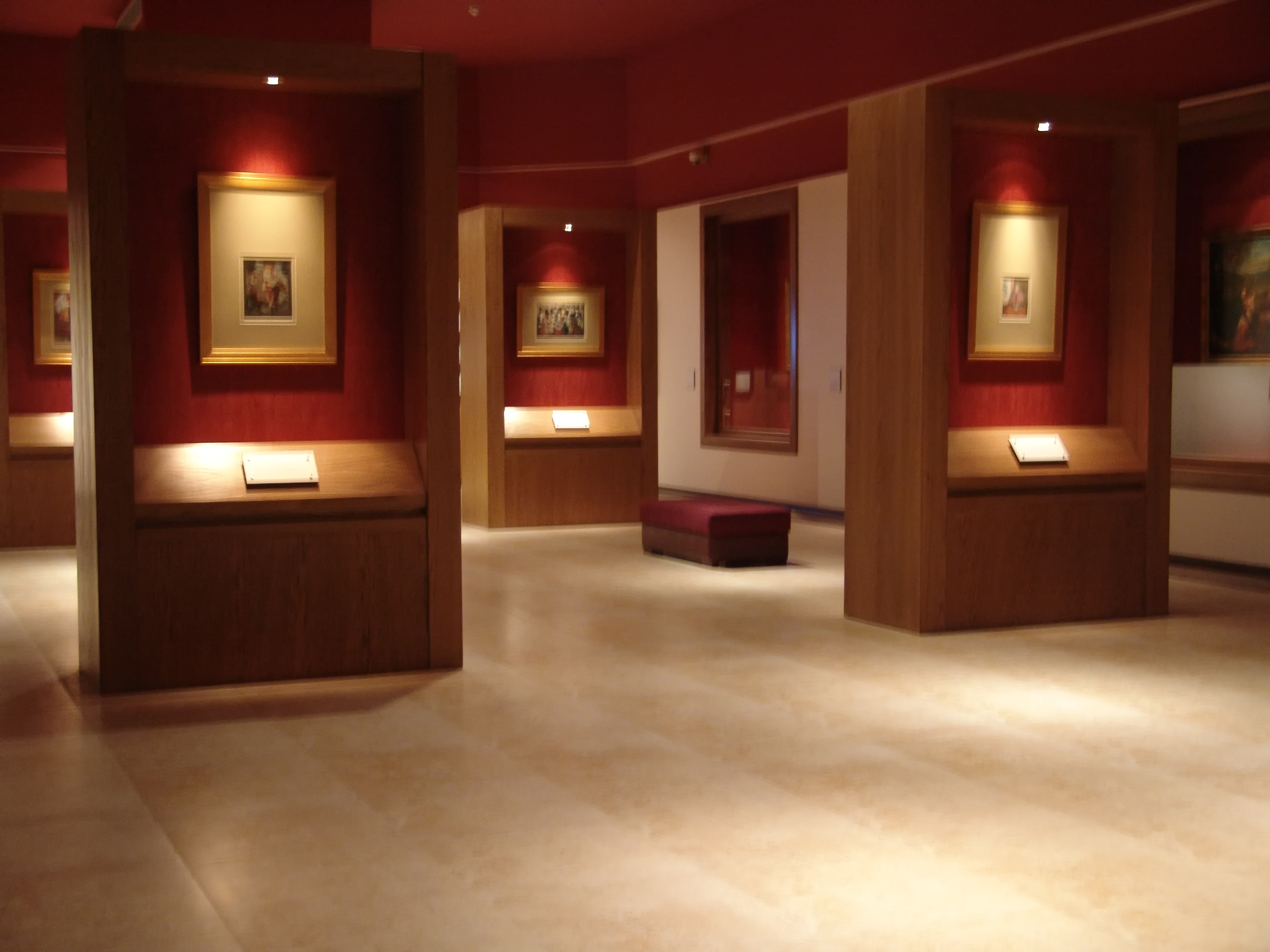 Malik National Museum of Iran